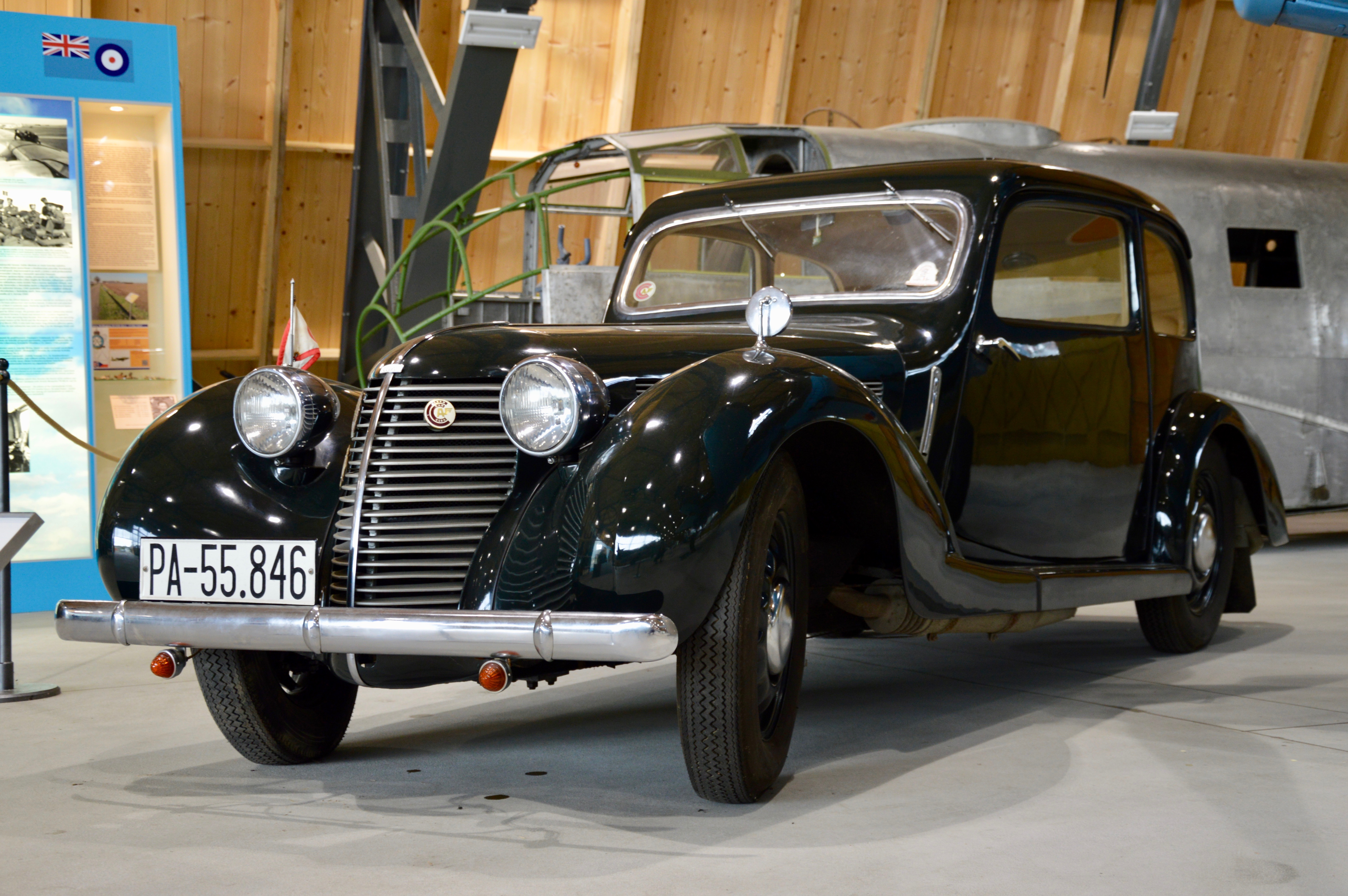 Aero 30 Model 1939 car on display at the Stará Aerovka, Prgaue